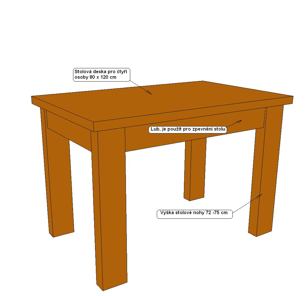 Table